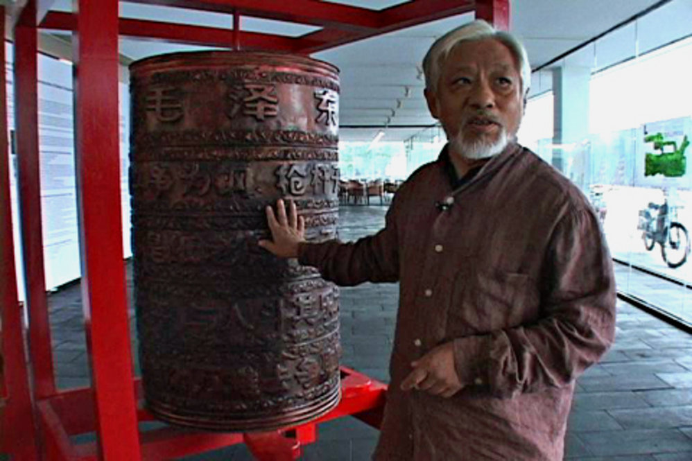 Li Xianting in front of Gade's Prayer Wheel, with 'Mao Zedong' written on it.